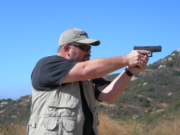 Instructor Desy shooting his Glock 23.